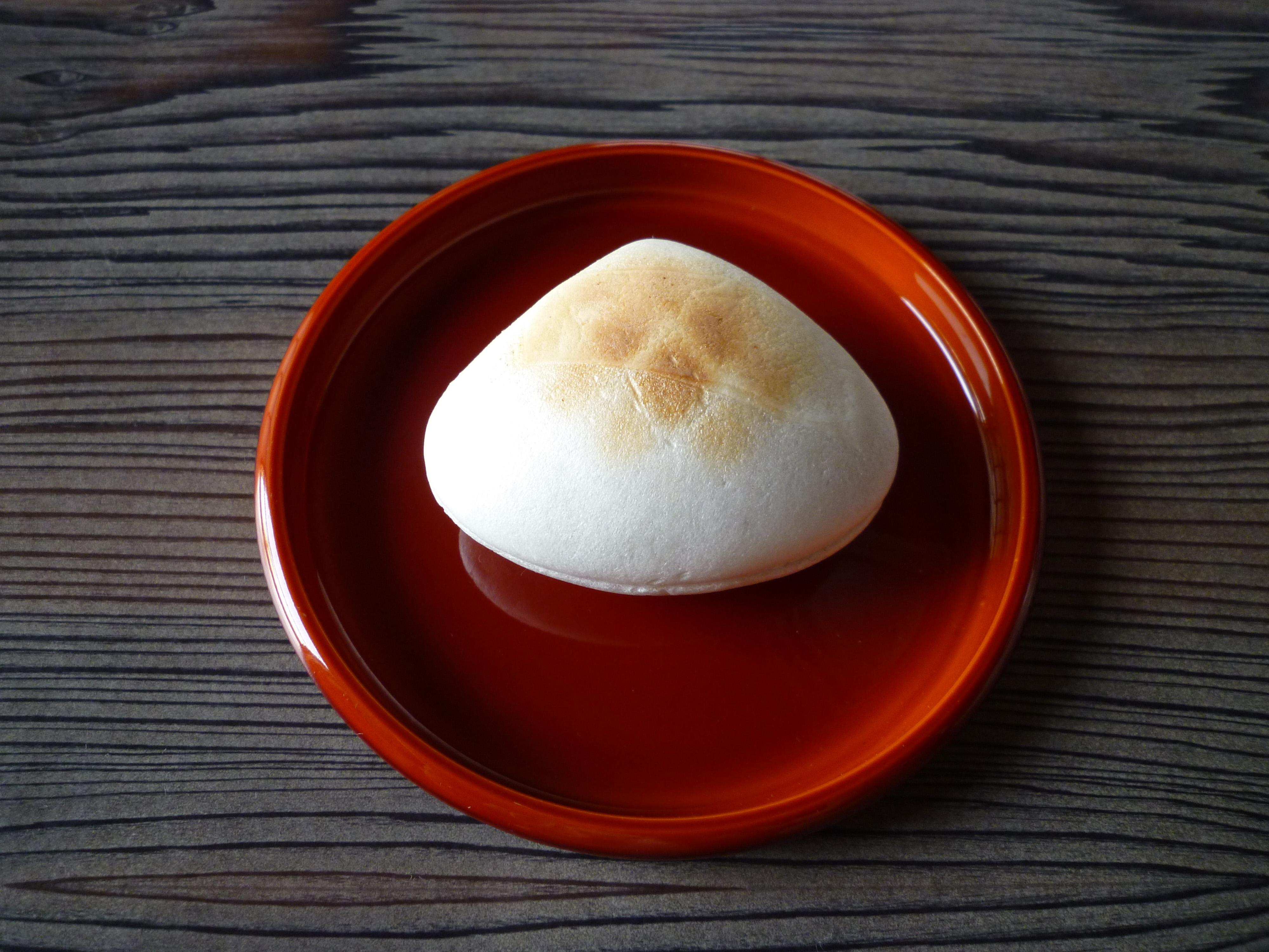 Hamaguri shiruko